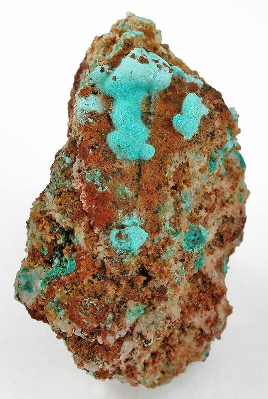 Mixite Locality: Lavrion (Laurion; Laurium) District, Attikí (Attica; Attika) Prefecture, Greece (Locality at ) Size: 6.8 x 5.0 x 3.6 cm. Mixite is a rare bismuth copper arsenate, and from Laurium is not in itself rare...but it is often found only as sparse microcrystalline material on large plates, and seldom as concentrated crystal clusters like you see here. This attractive turquoise-colored cluster of mixite crystals is nearly 2 cm, and winds attractively down the matrix. Unusually rich for this locality, but also for mixite from any other place as well.